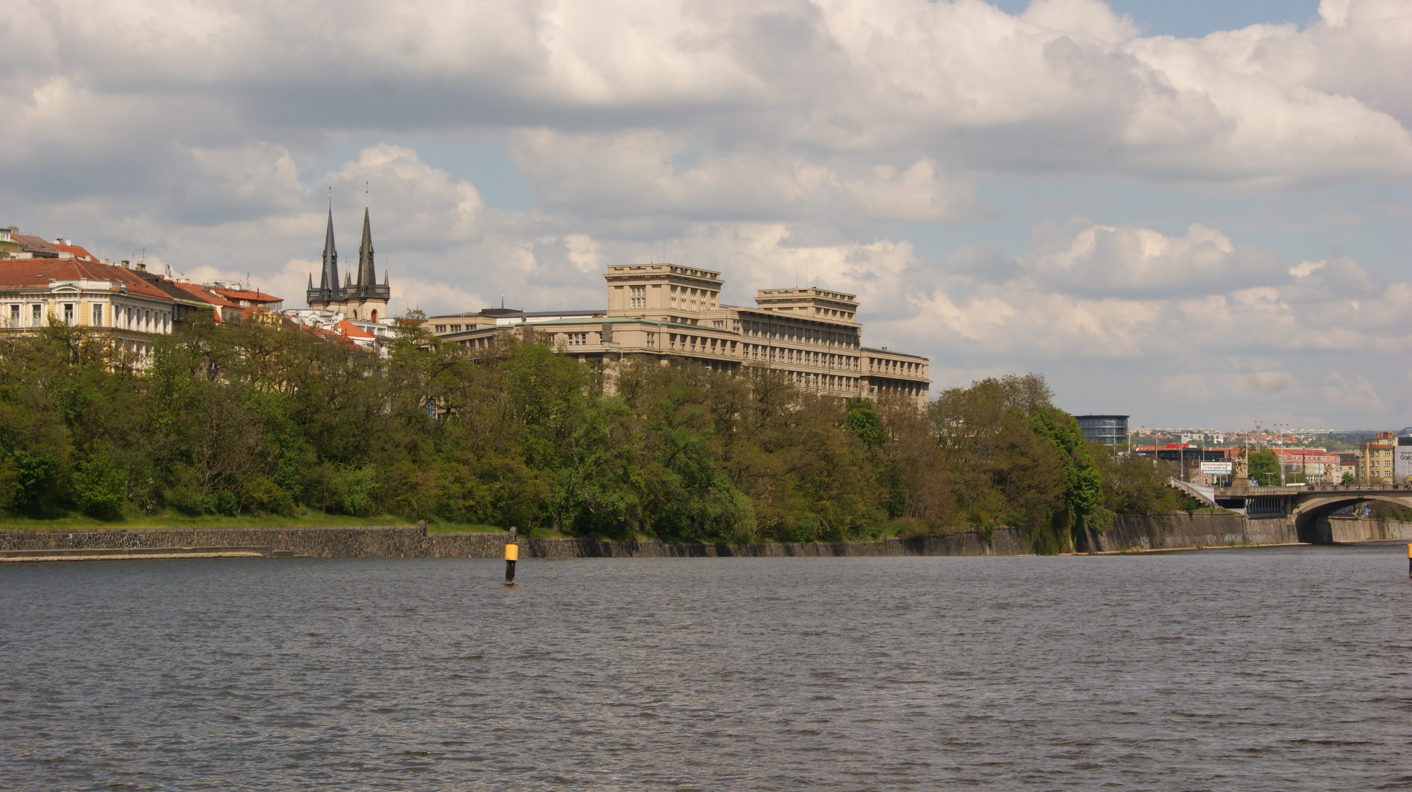 Building of the former State Planning Commission in the municipality 7, urban district: Holešovice in Prague. Now the headquarters of the financial authorities.